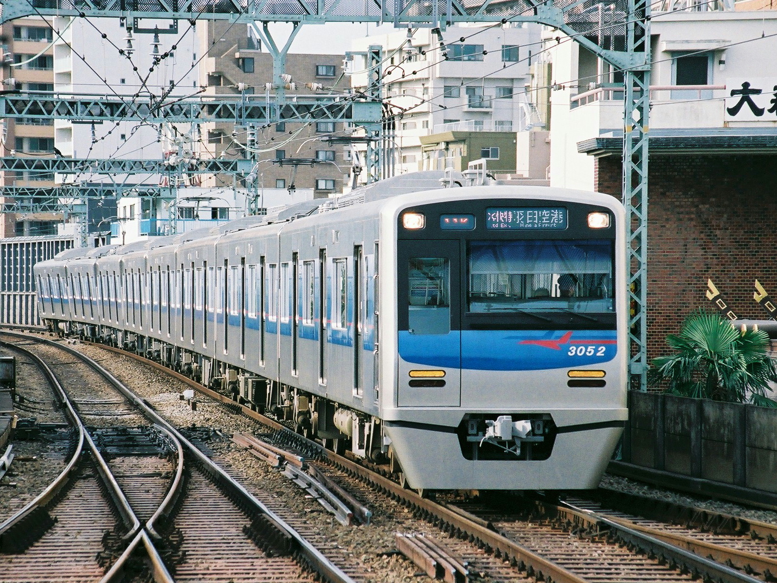 Keisei 3050 series (3000 series 7th batch) EMU set 3052 approaches Heiwajima Station on an "Airport Limited Express" service